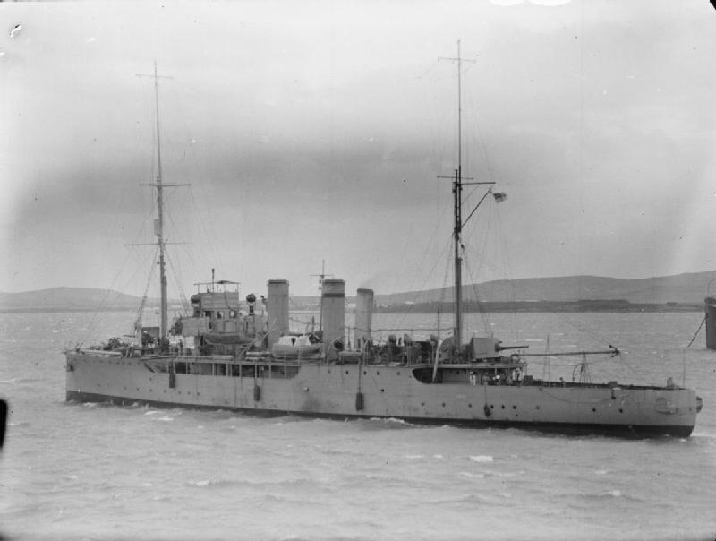 Photograph of British Azalea class minesweeping sloop HMS Azalea.